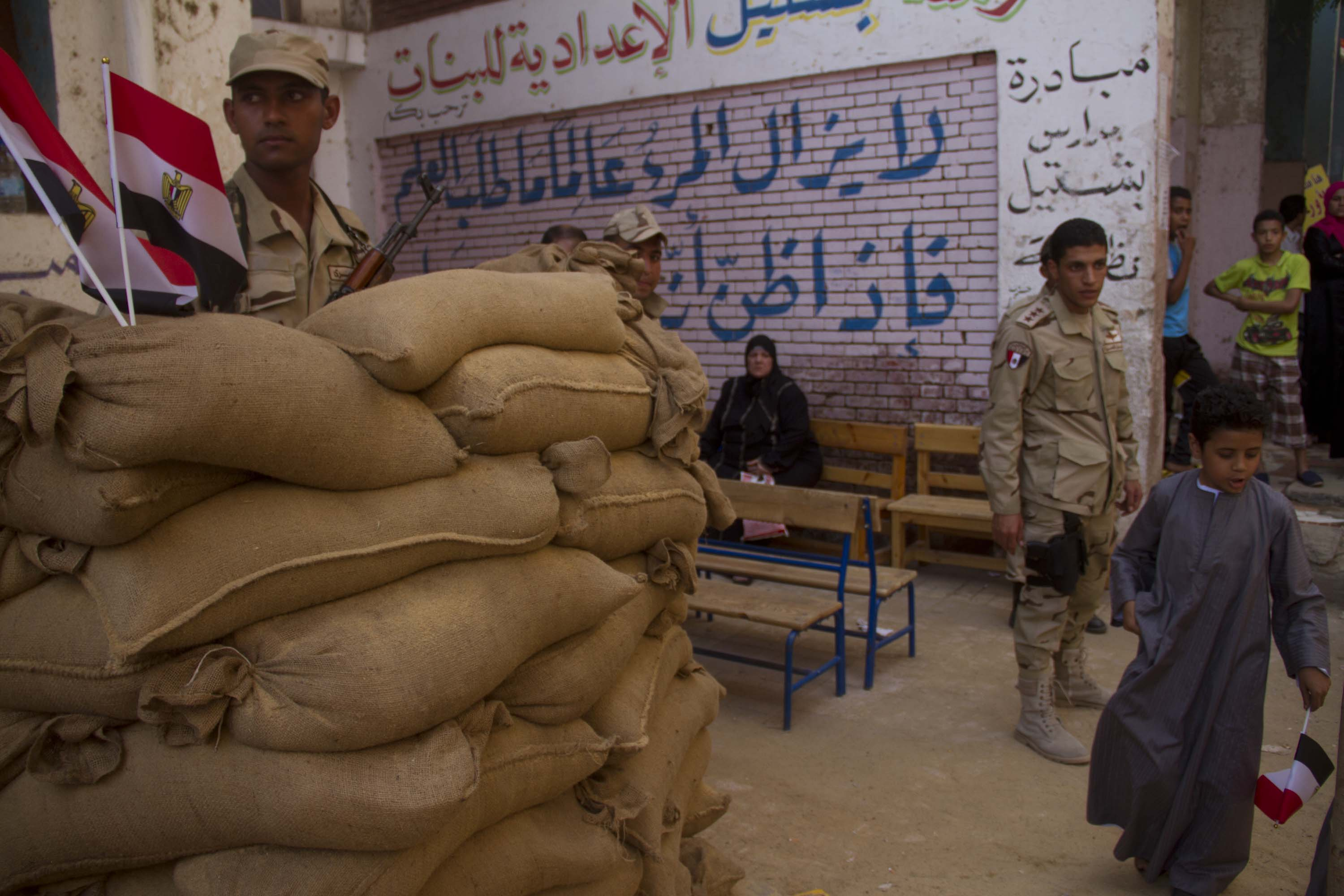 Original description: "Security outside a polling station in Cairo, May 27, 2014. (Hamada Elrasam /VOA)"